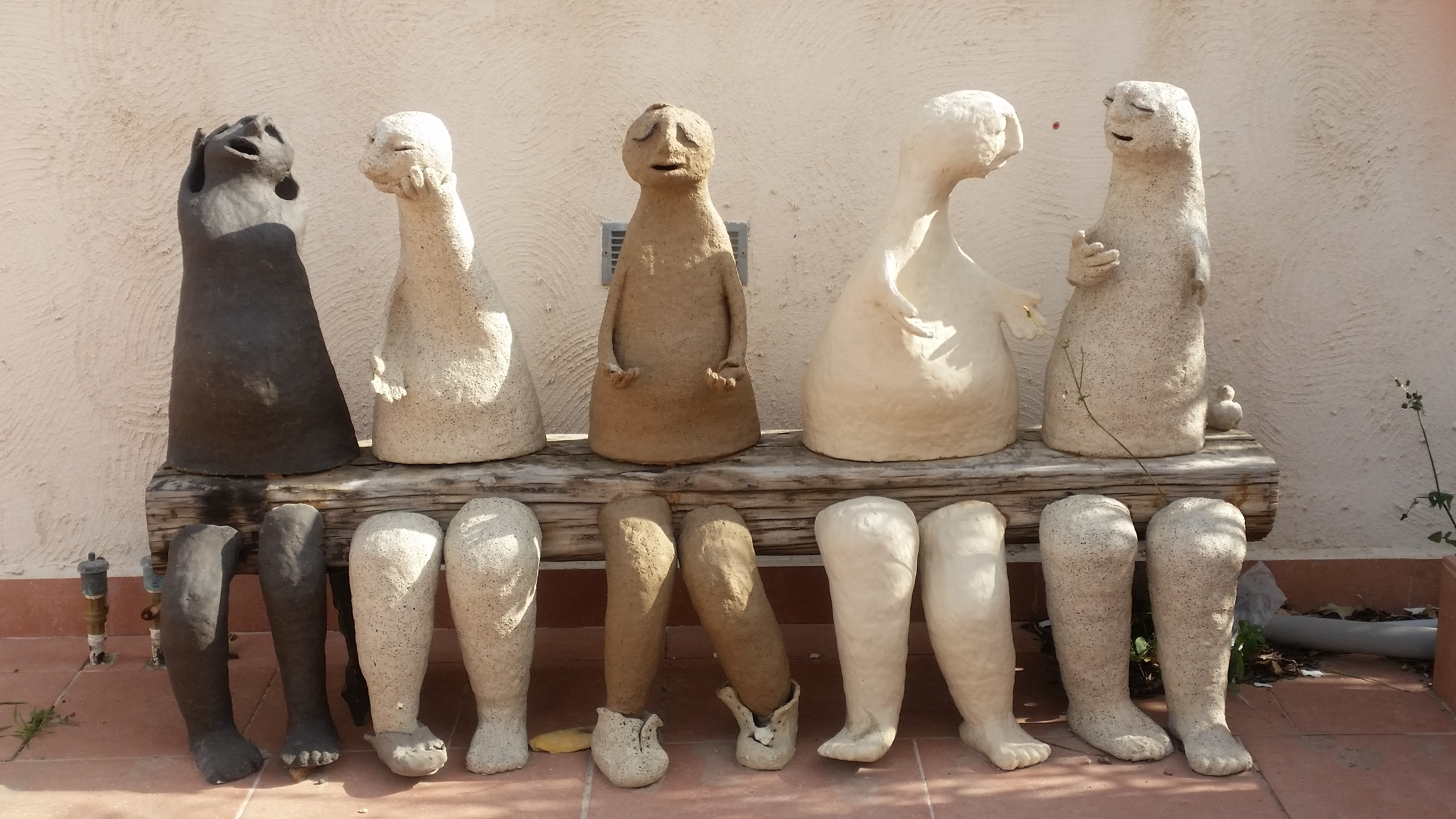 The Parliament